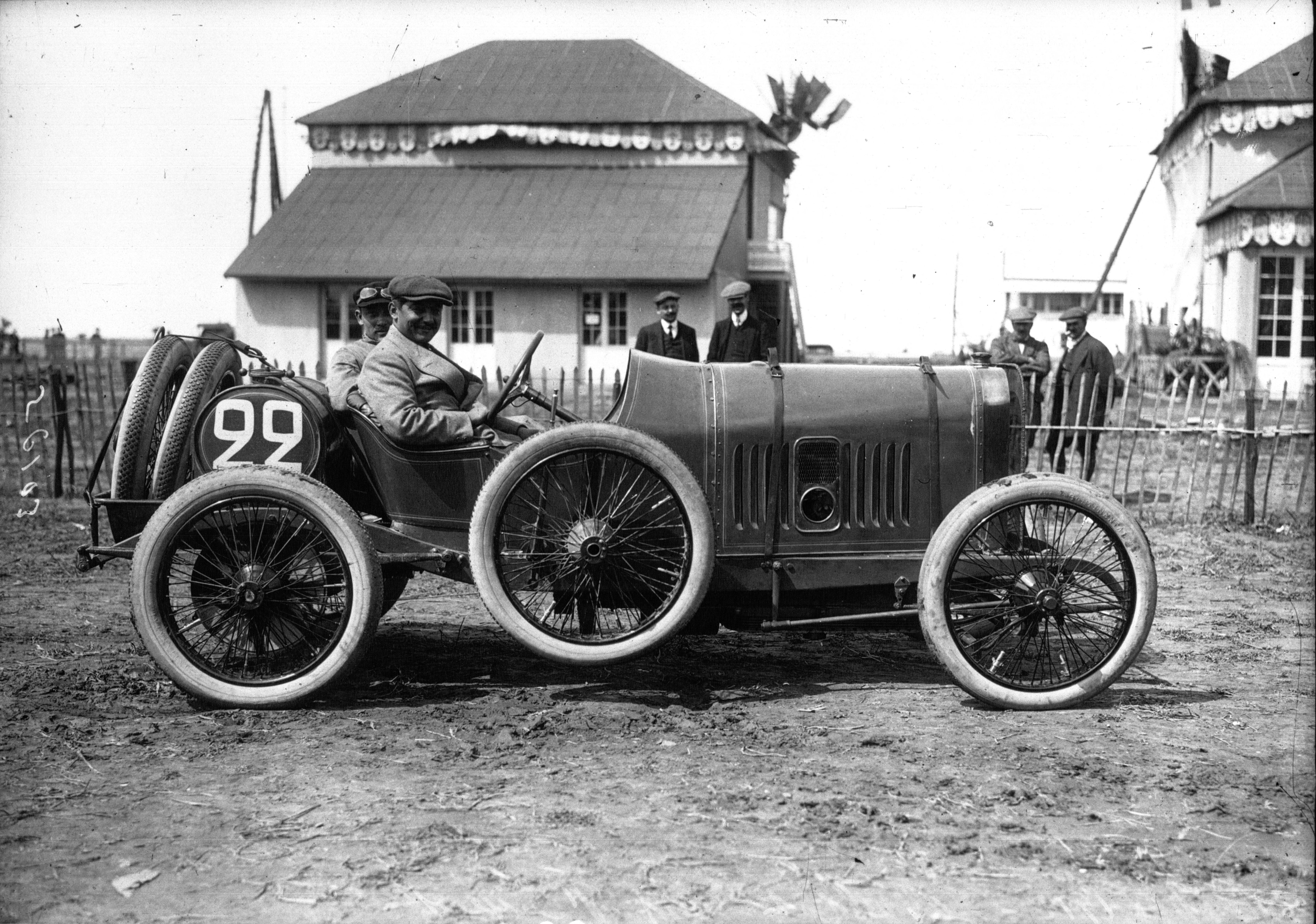 Georges Boillot in his Peugeot at the 1912 French Grand Prix at Dieppe.